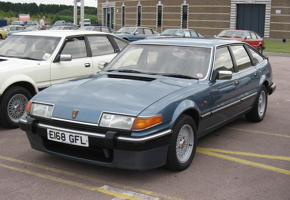 Rover sd1 club day at the British motoring heritage museum gaydon .